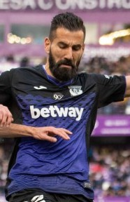 Real Valladolid - C. D. Leganés, 14th fixture of the 2018-19 La Liga, December 1, 2018.